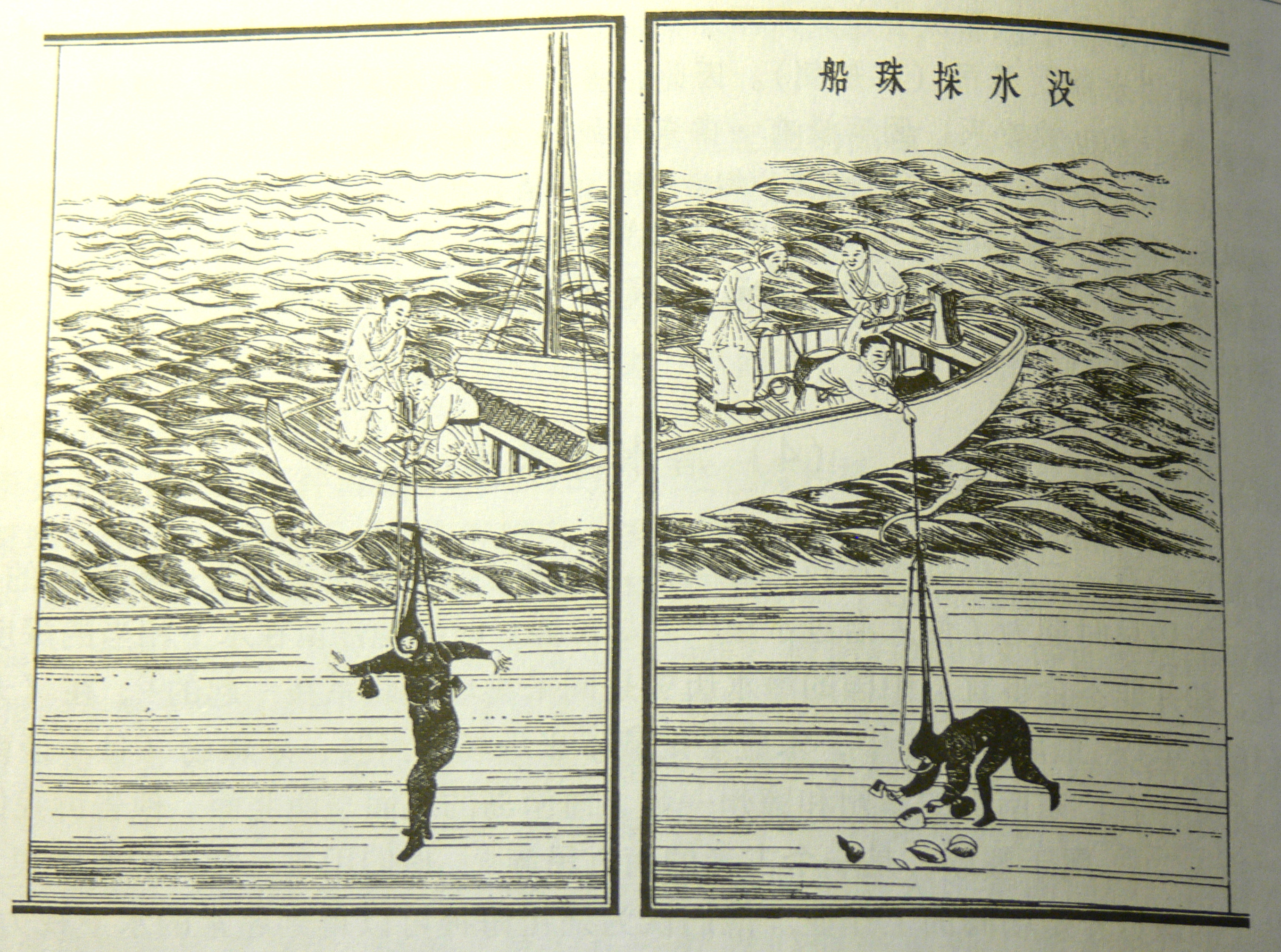 Pearl diver boat